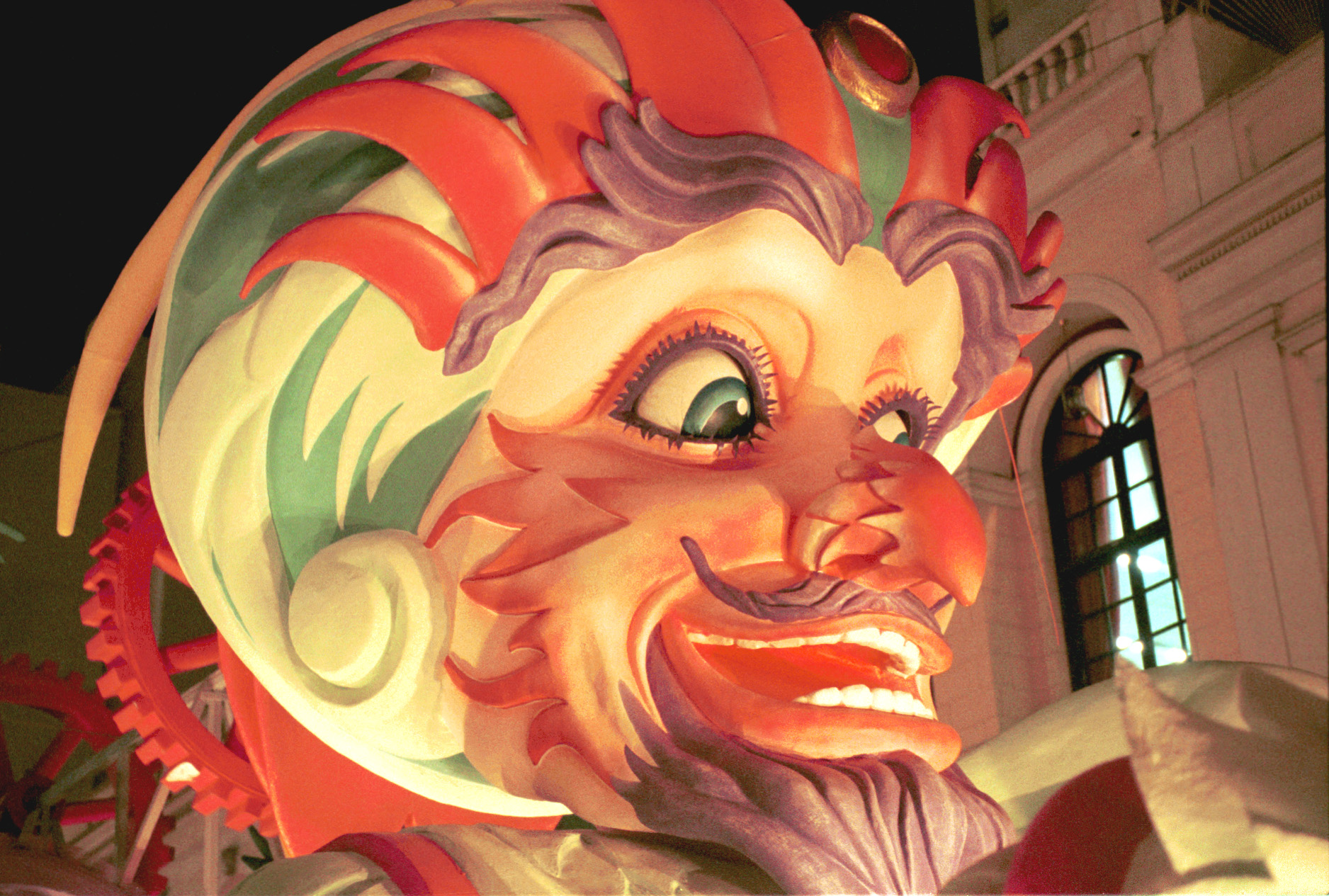 The float of the King carnival parading in Patras, Greece in Georgiou I square.